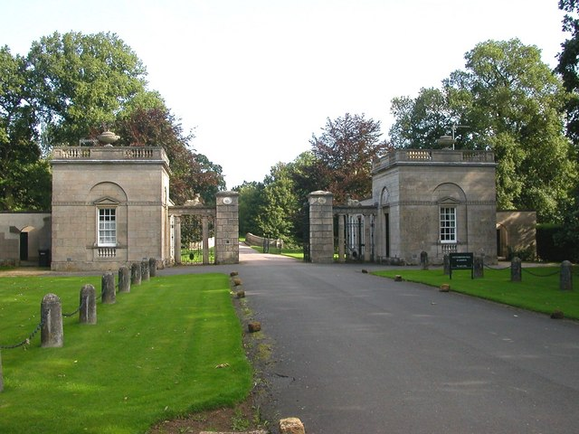 Cottesbrooke. Gatehouse to Cottesbrooke Hall.